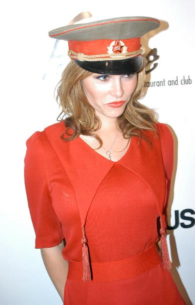 Heather Vandeven, pornographic actress. Taken at Cassia Riley's party At Basque in June 22, 2006.